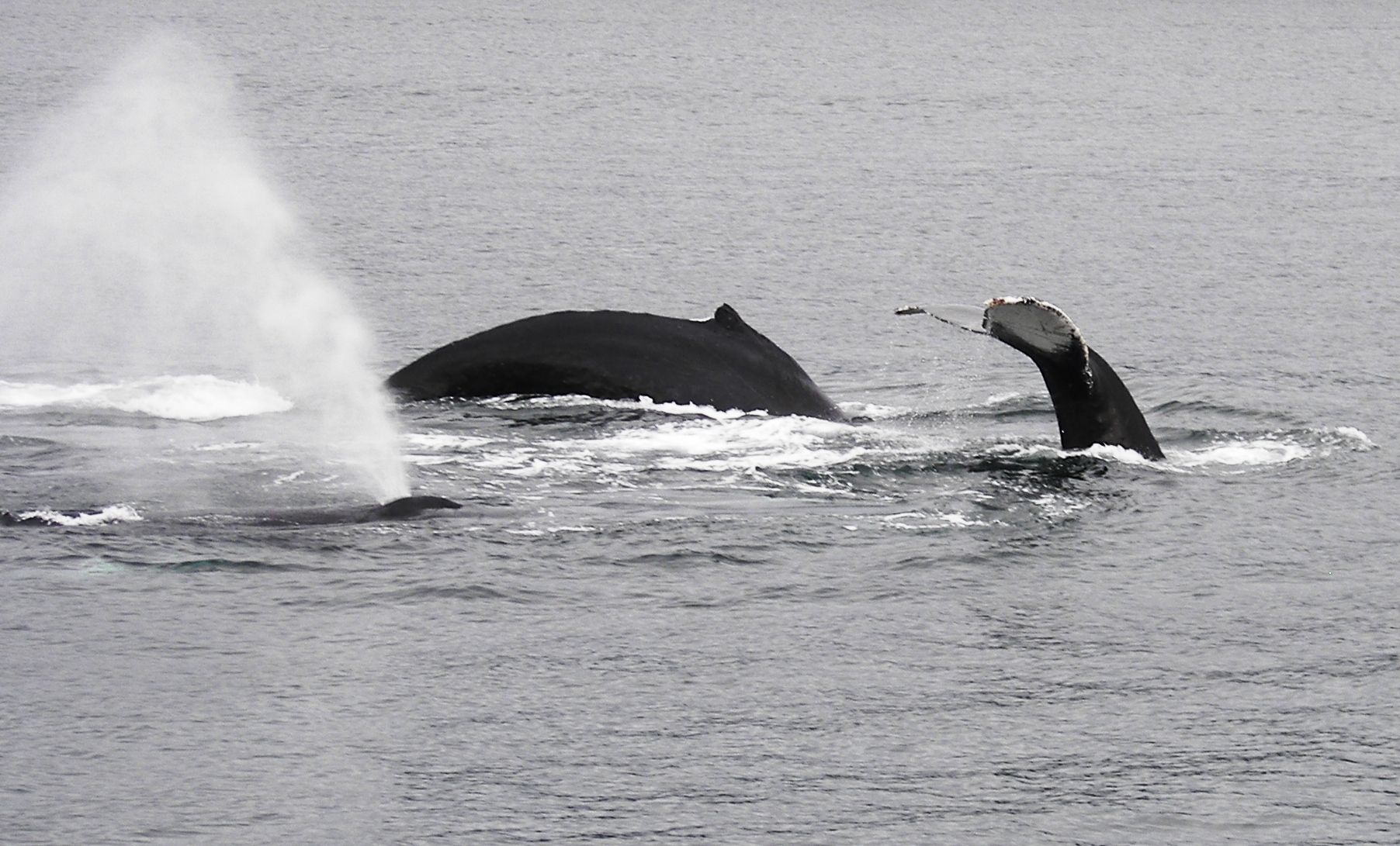 Three humpback whales diving in North Pass between Lincoln Island and Shelter Island in the Lynn Canal north of Juneau, Alaska. These whales were part of a group of 15 that were bubble net fishing on 18 August 2007.